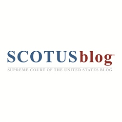 Logo for SCOTUSblog